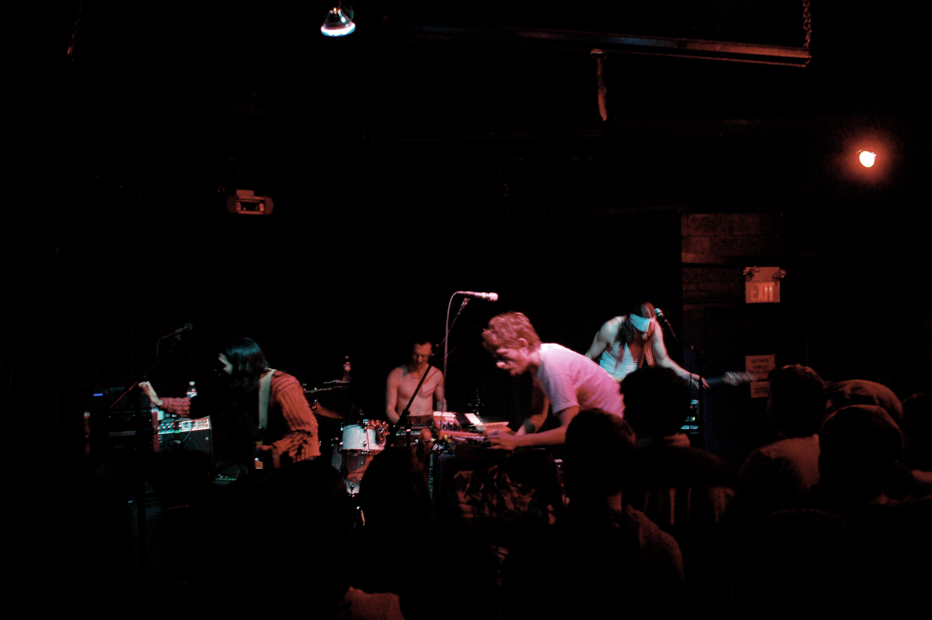 Yeasayer January 16th, 2008 at the Black Cat